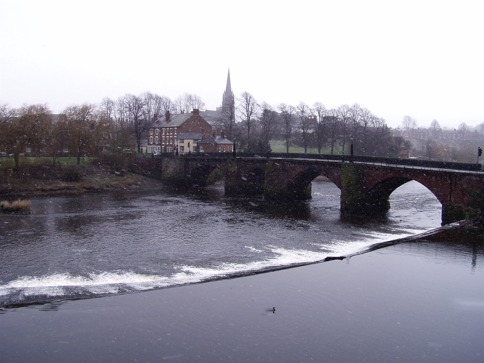 Handbridge, the weir, the Old Dee Bridge, and St. Mary's Church as seen from the Chester walls.